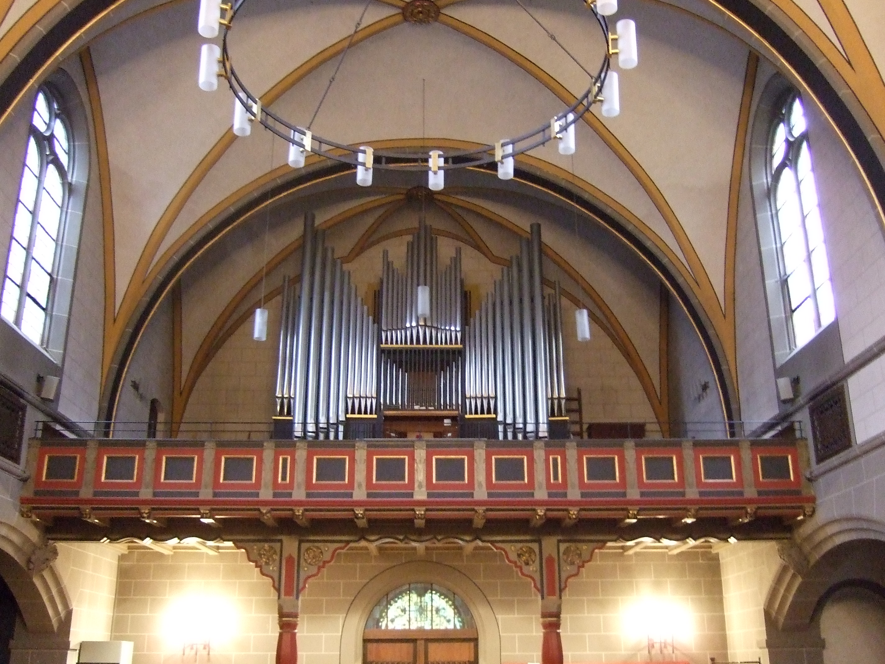 Organ Christuskirche in Kassel